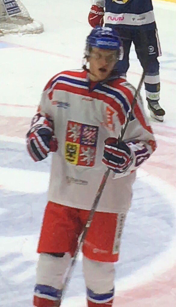 Czech ice hockey player David Kämpf playing for Czech Republic national team on 15th of December 2016.